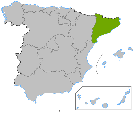 Location of Catalonia, in Spain. Basado en: ProvPont.jpg Source: Designed by Satesclop. Original picture, designed by Sobreira.